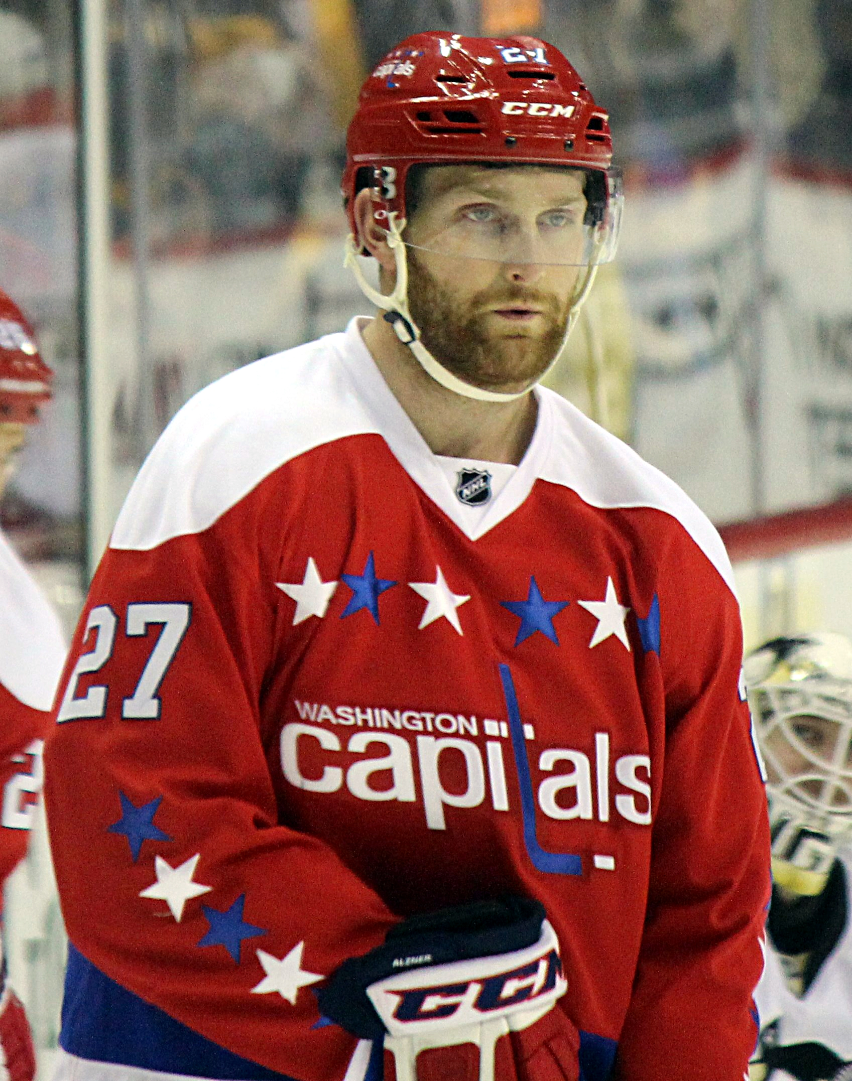 Washington Capitals defenseman Karl Alzner during a game against the Pittsburgh Penguins, Thursday, April 7, 2016 at Verizon Center in Washington, D.C.